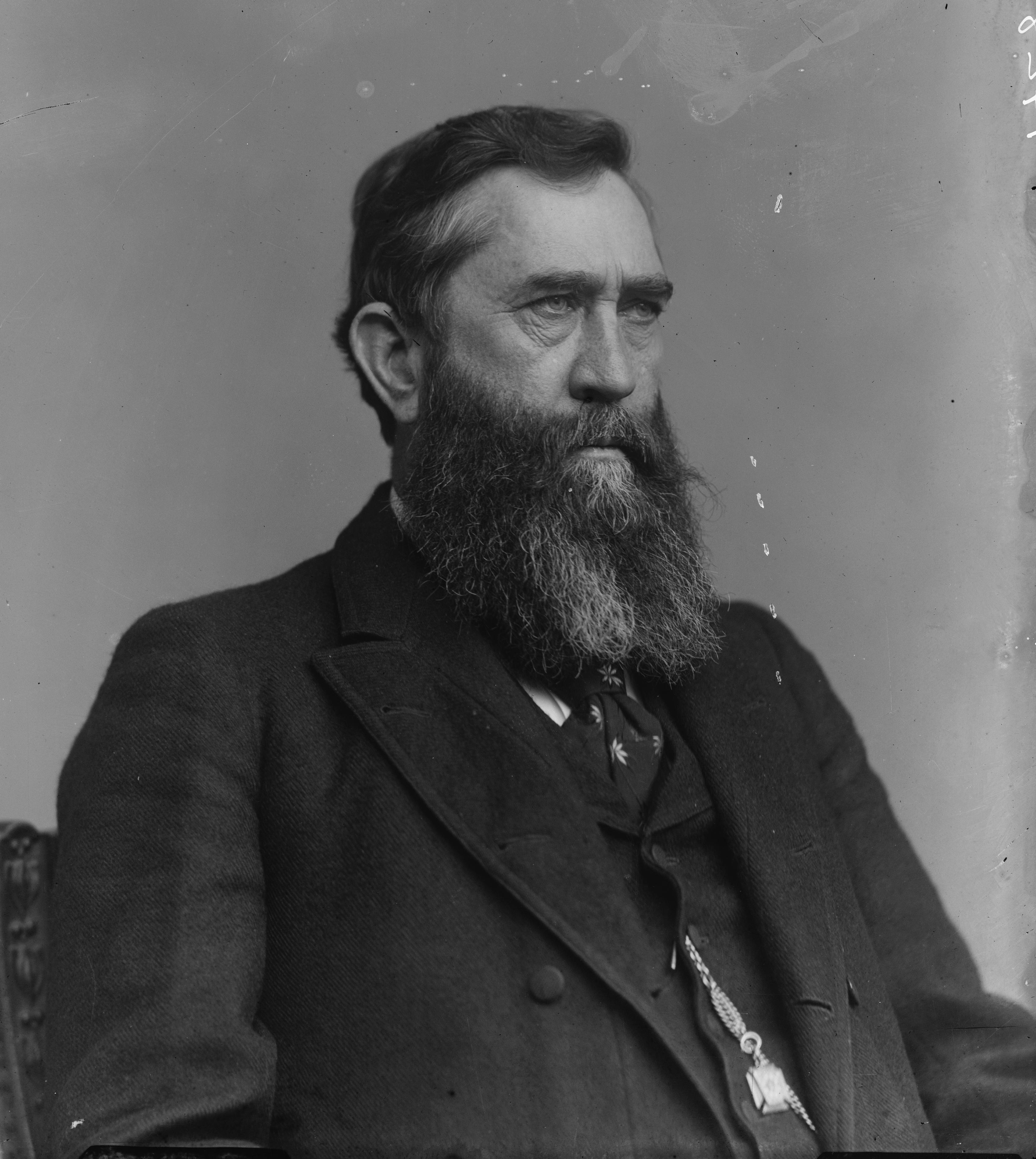 Joseph Abbott (Texas politician). Library of Congress description: "Hon. Jo Abbott of Texas"